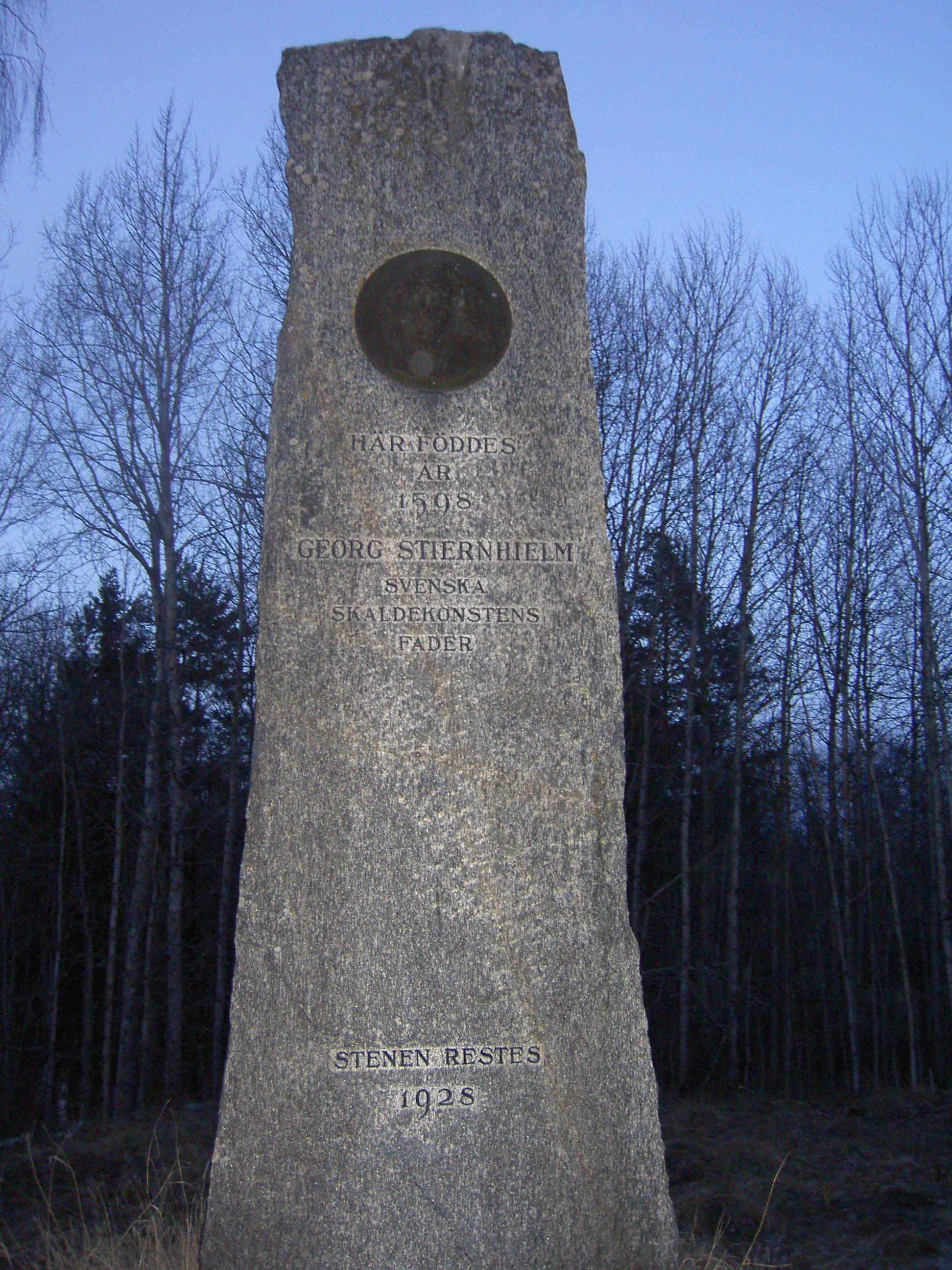 Georg Stiernhielm memorial stone. Kniva, Sweden.